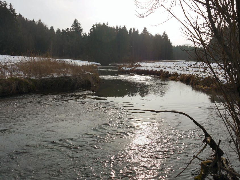 River Singold (Bavaria, Germany), between Holzhausen bei Buchloe and Rollmühle